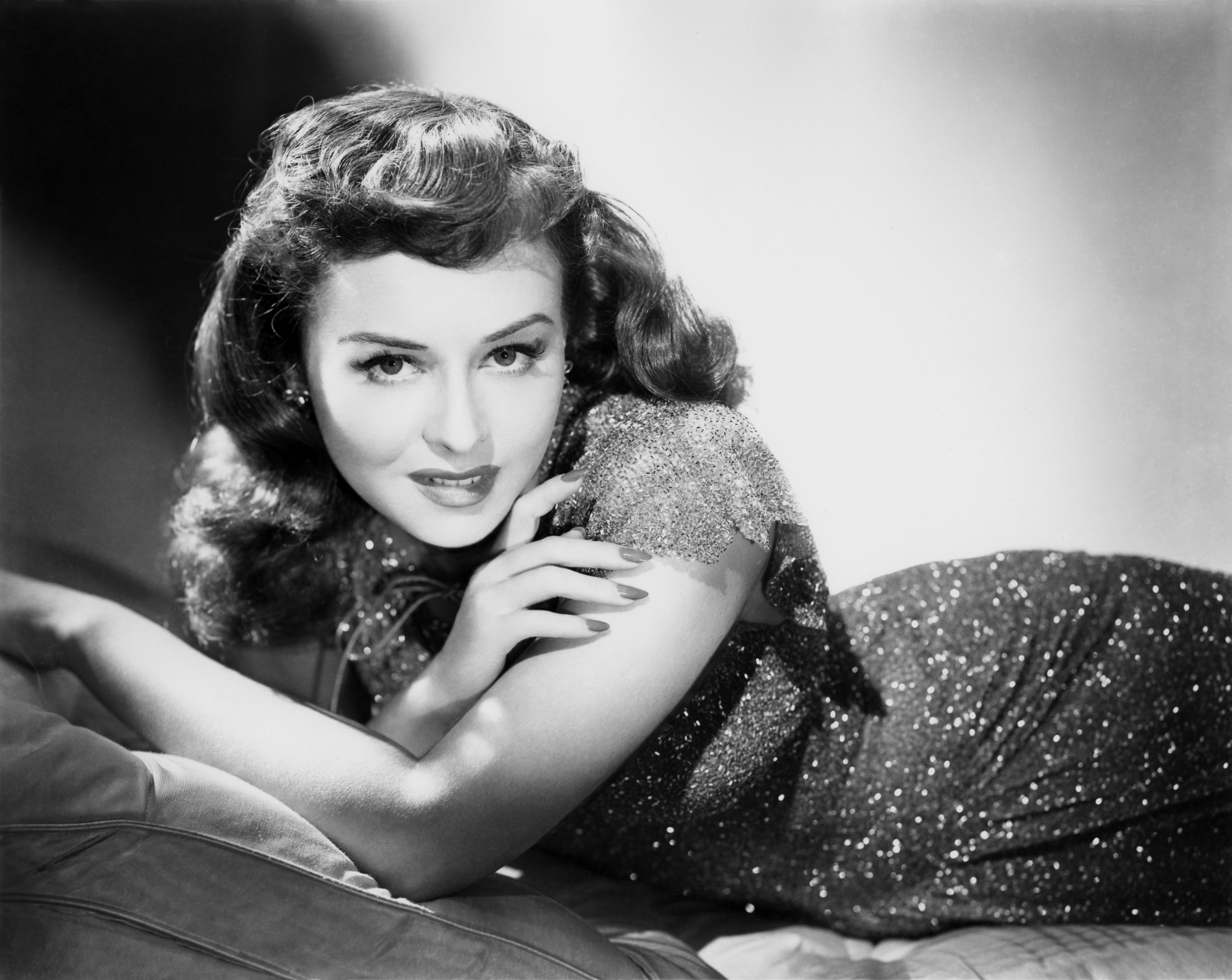 Publicity shot of Paulette Goddard, unknown date.